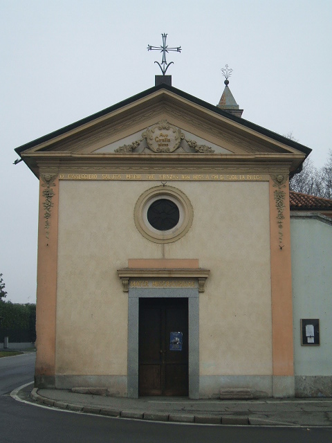 Santuario Madonna della Misericordia - Vedano al Lambro